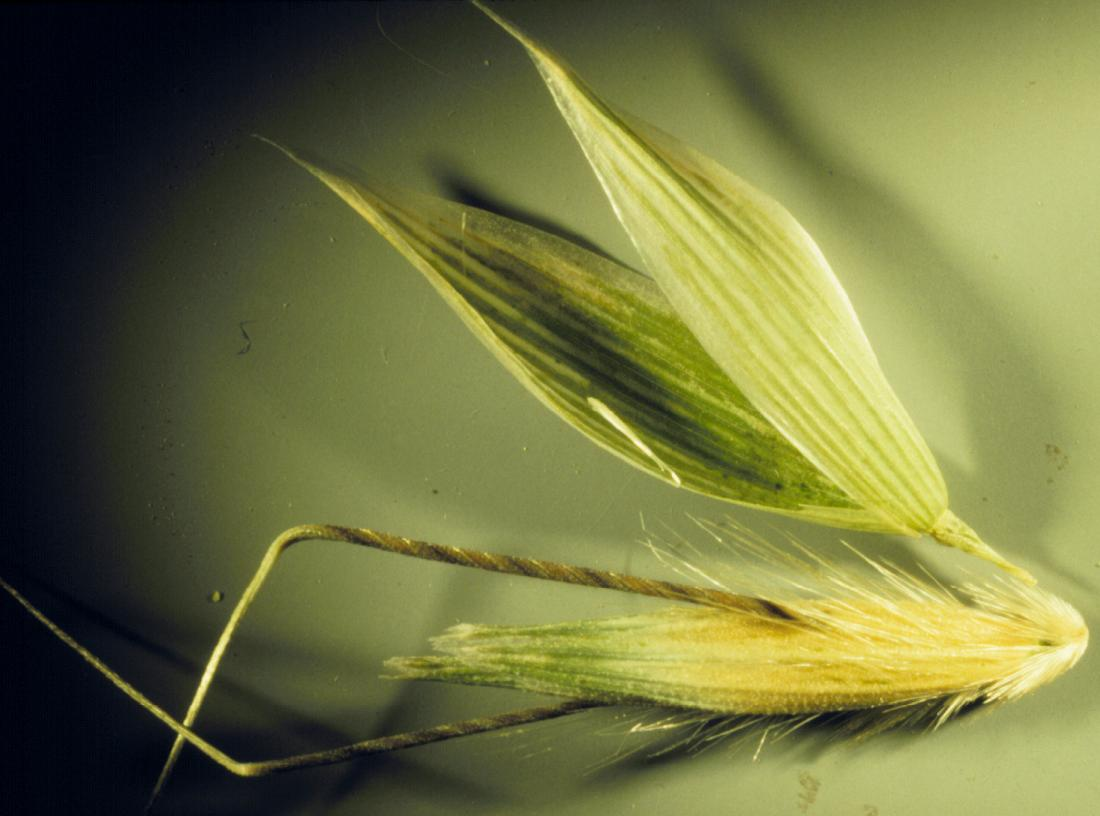 The hairs of the callus at the the base of the floret serve as barbs to aid in the penetration of this dispersal unit into something like fur, soil, socks, etc. The hairs on the bit of attached rachilla must also function similarly (the callus at the base is derived from the rachilla).